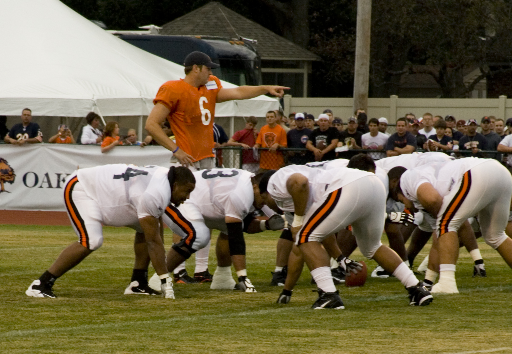 Cutler points out the Mike @ training camp, '09